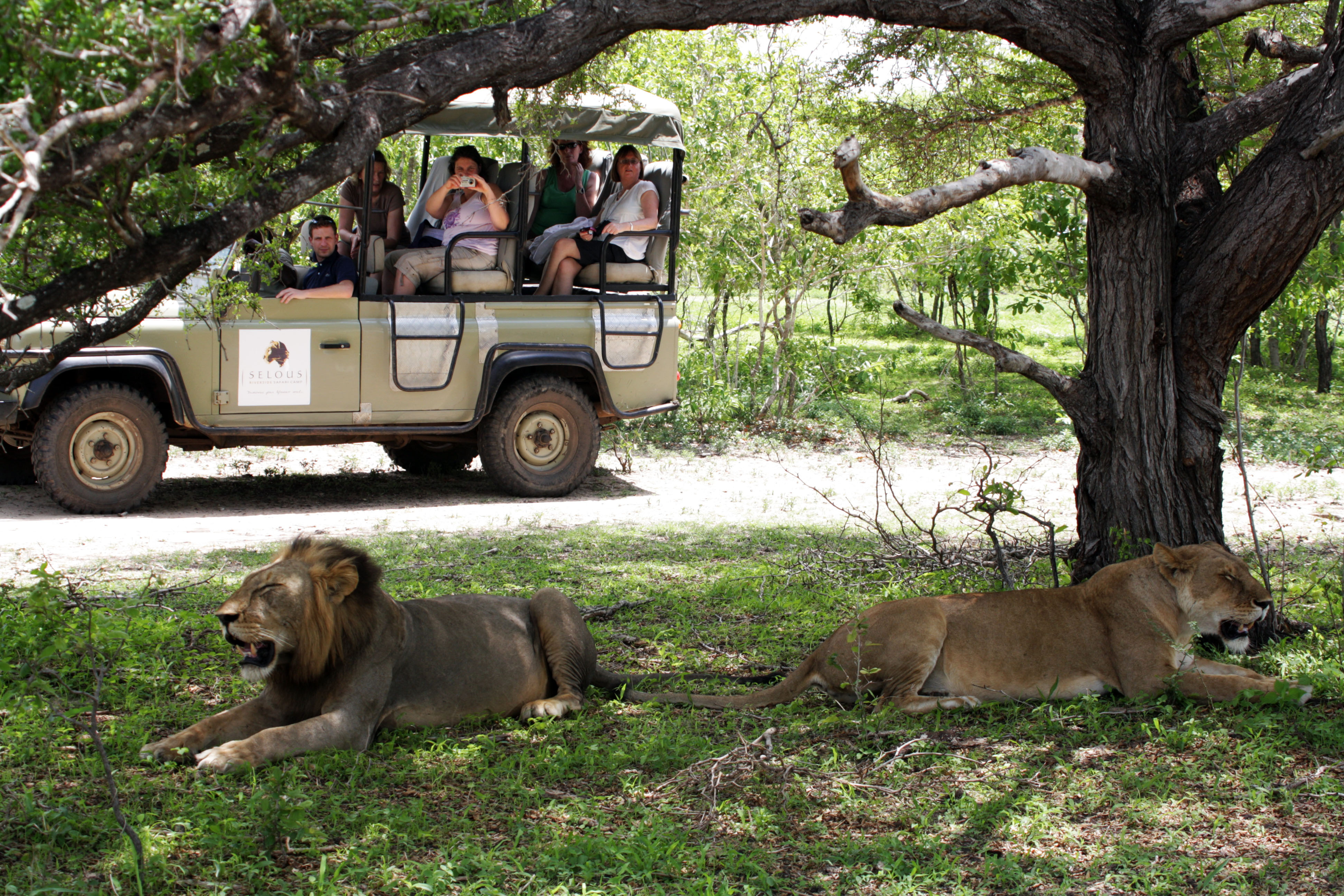 Watching a pair of lions, Selous Game Reserve, Tanzania